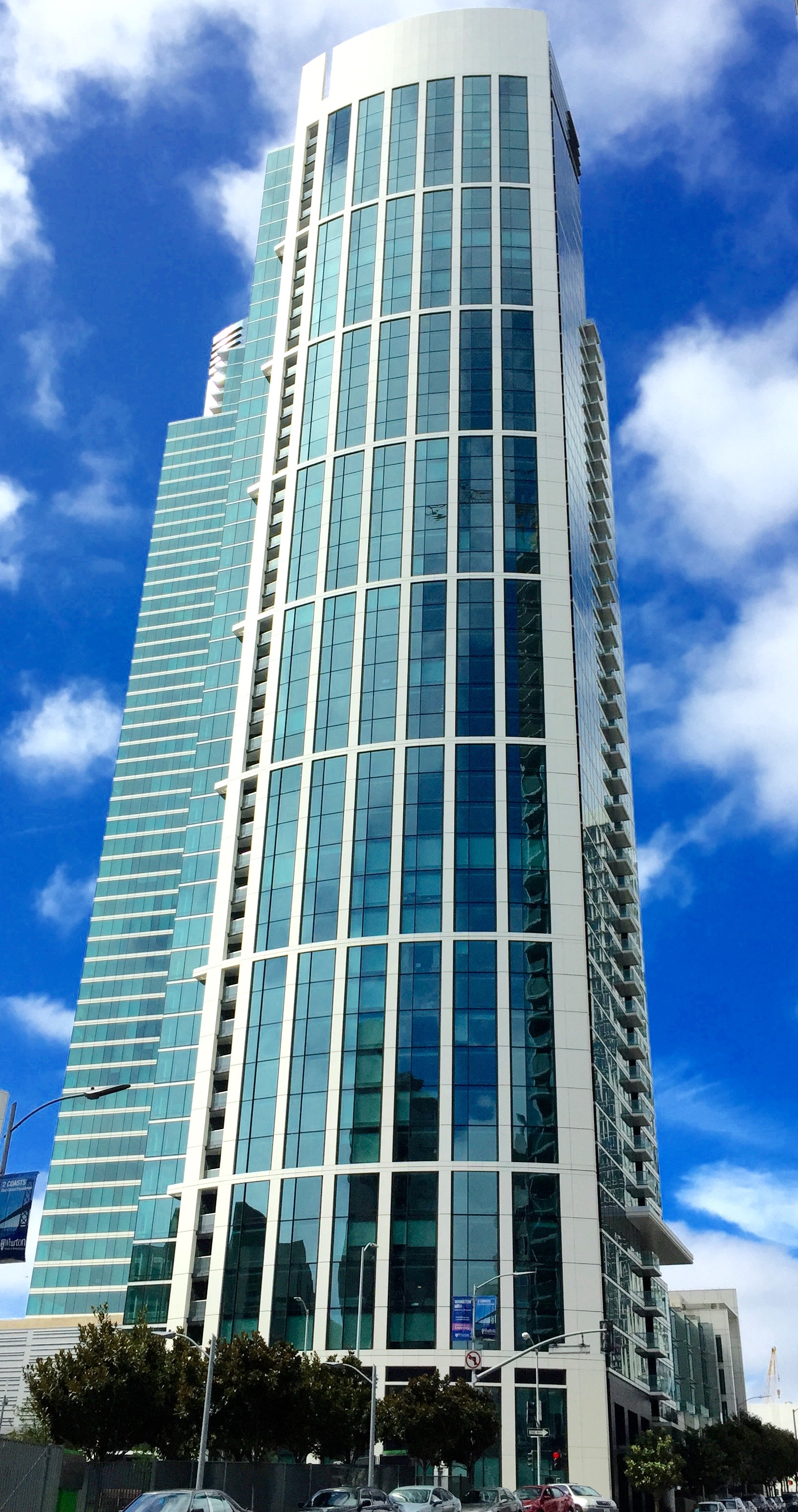 One Rincon Hill North Tower, San Francisco, East View